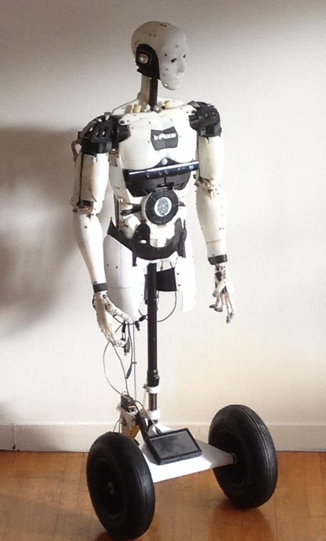 InMoov Robot on wheels